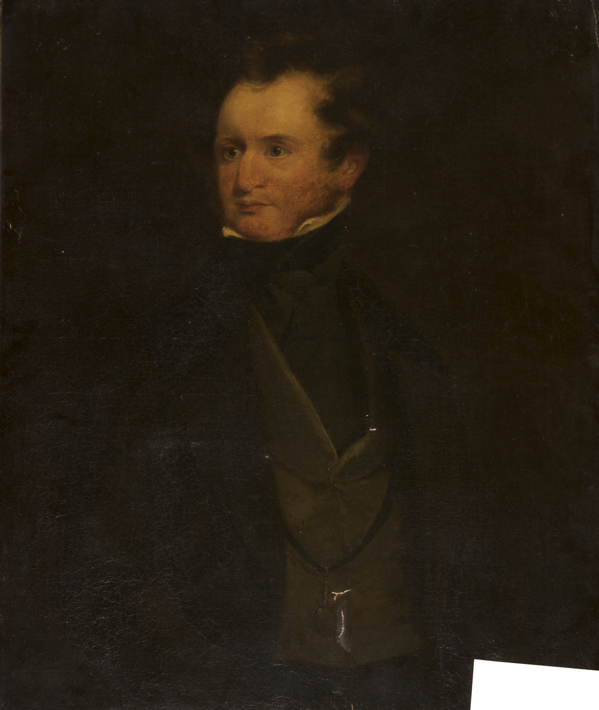 Portrait of Edward Smith-Stanley, 14th Earl of Derby